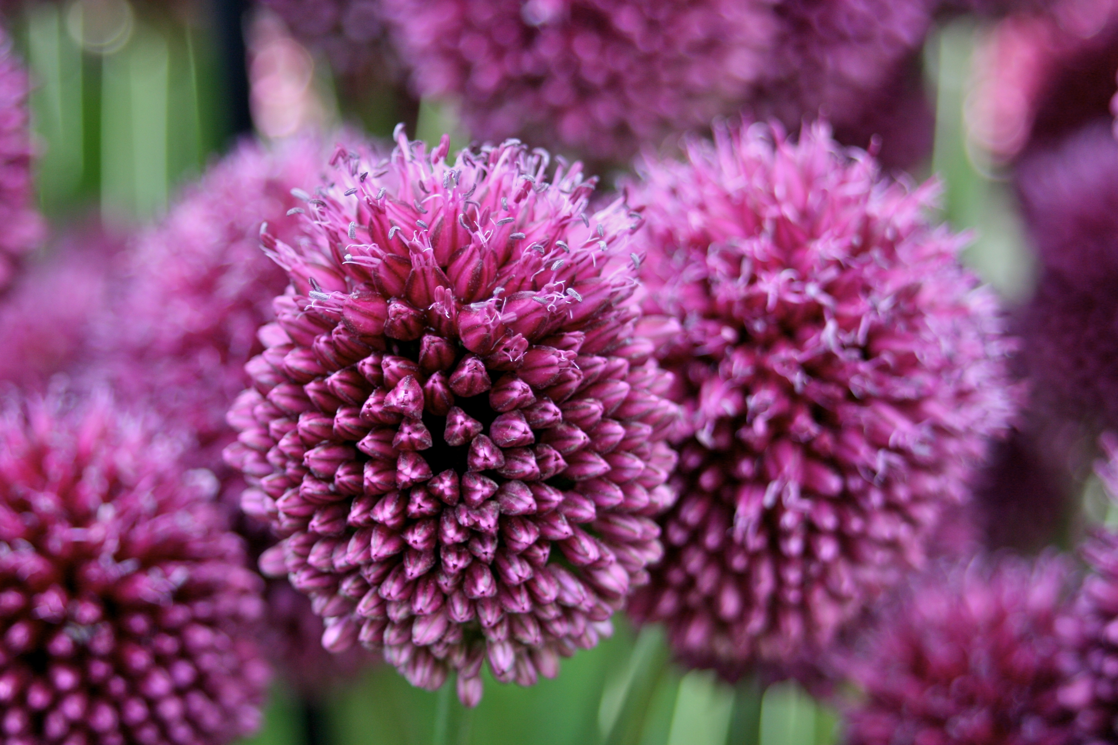 Allium sphaerocephalon. Taken during Tatton Park Flower Show 2009